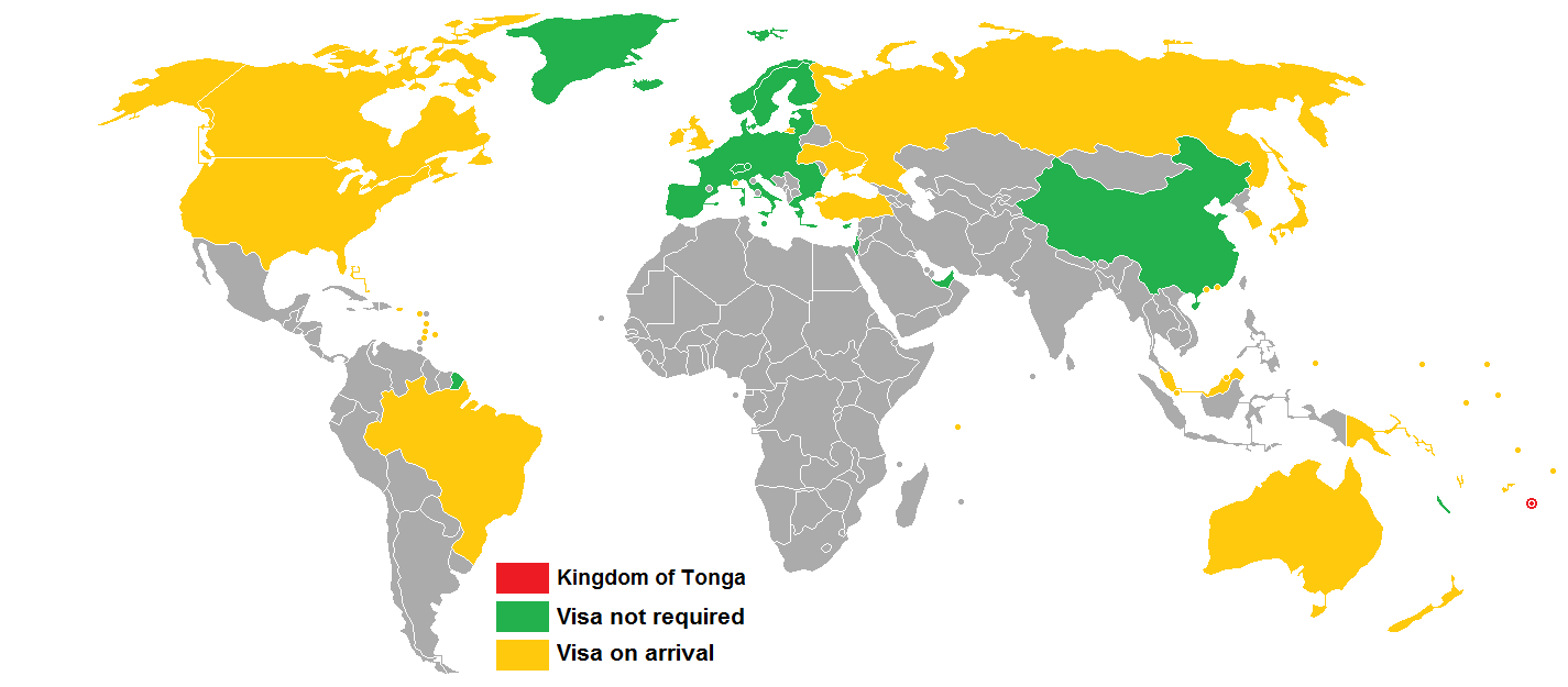 Visa policy of Tonga Tonga Visa not required Visa on arrival